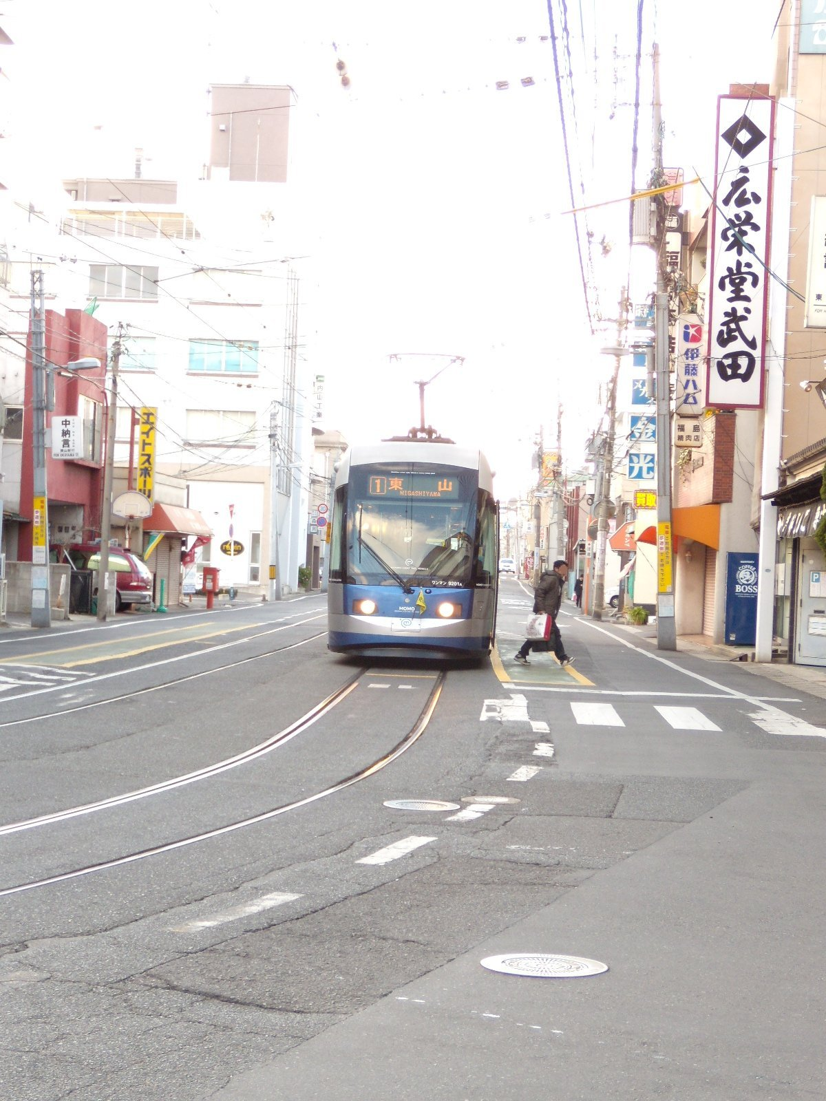 Okayama Electric Tramway Type 9200 tramcar at Chunagon Station